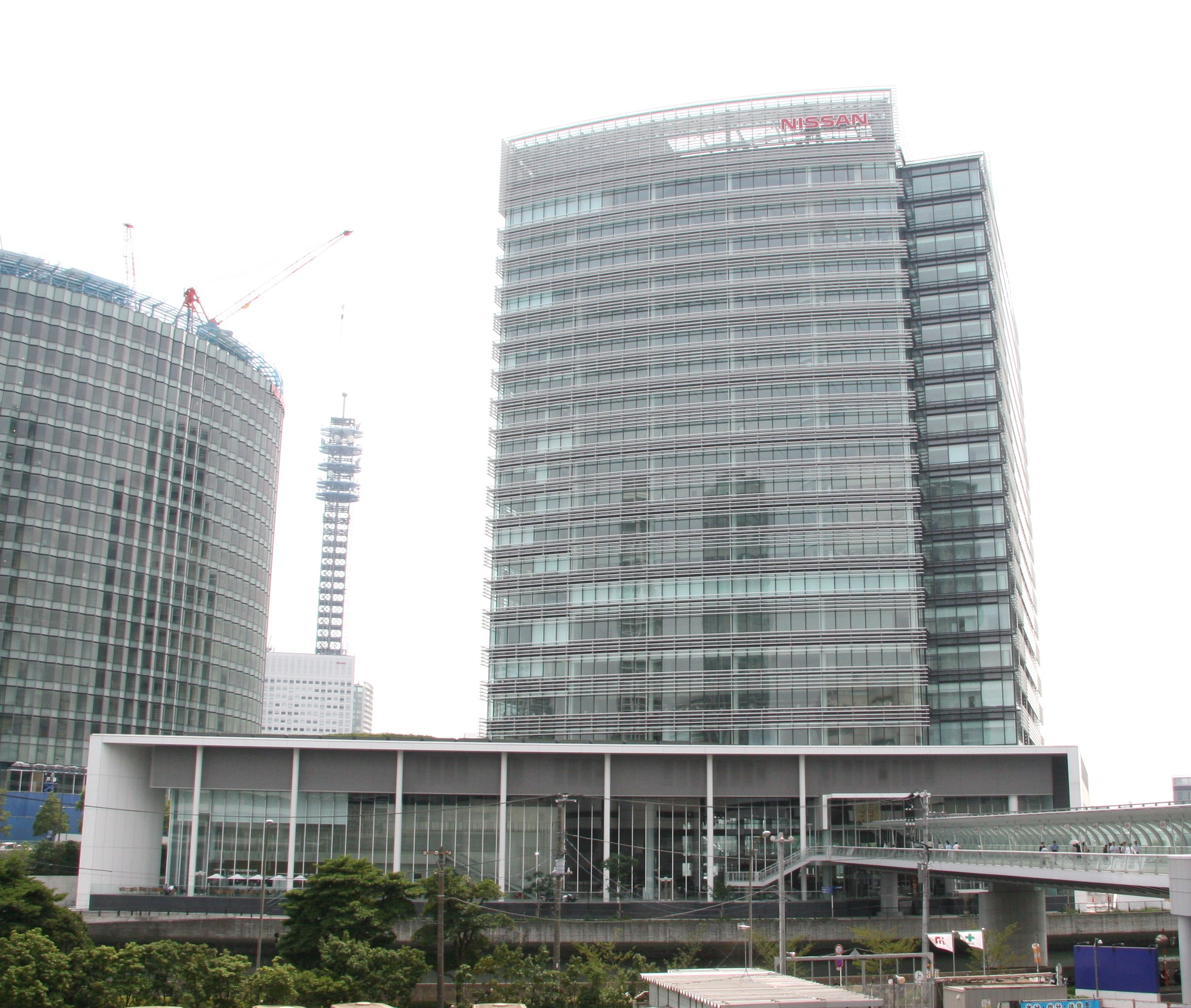 NISSAN GLOBAL HEADQUARTERS, Yokohama